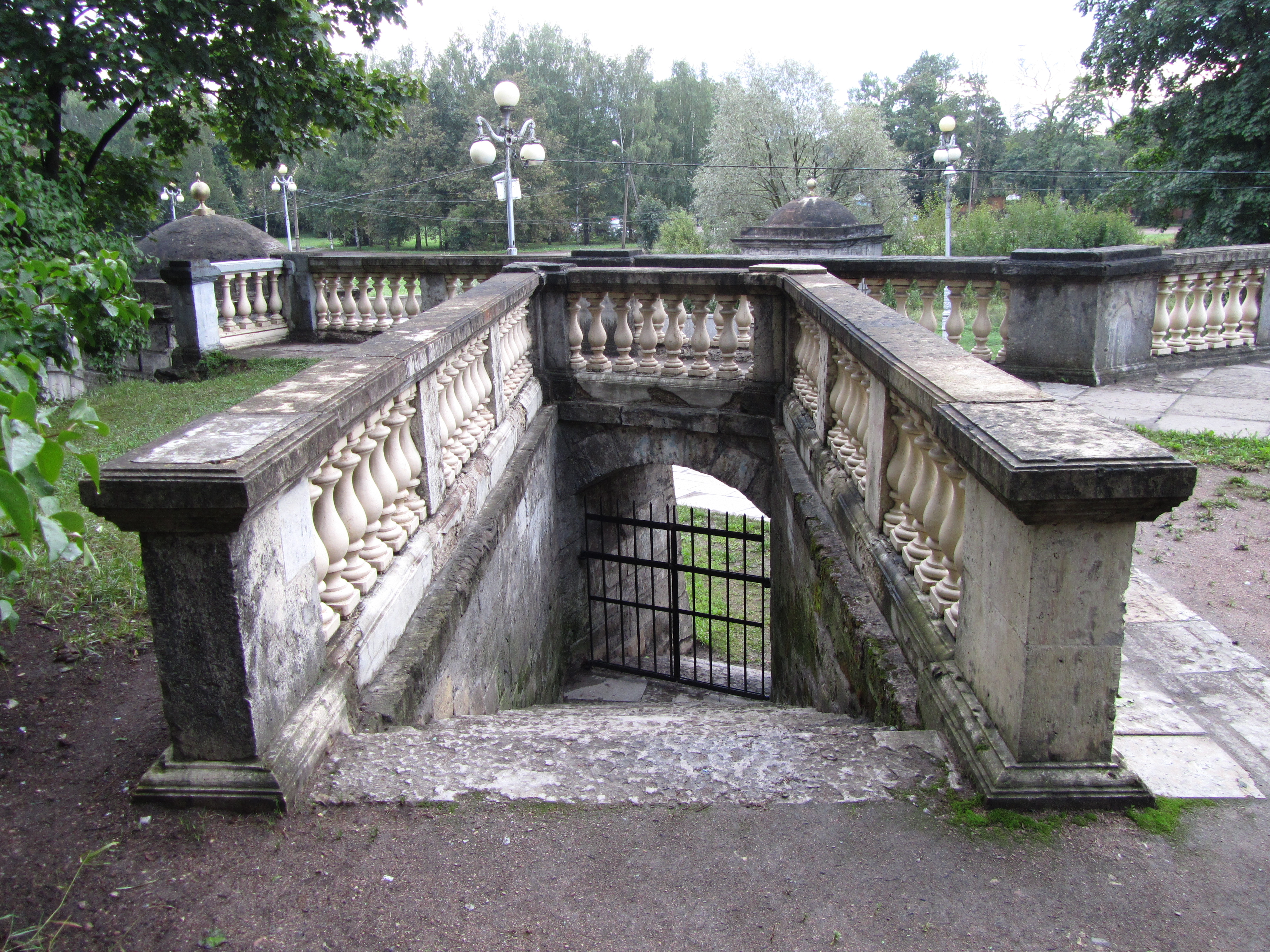 Entrance to the terrace, view from the upstairs, Gatchina, Russia, 2014